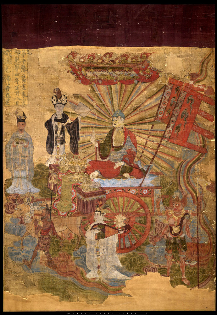 "Tejaprabhā Buddha (Buddha of the Blazing Lights) and the Five Planets" by Chang Huai-hsing. The five planets are Mercury, Venus, Mars, Jupiter and Saturn.